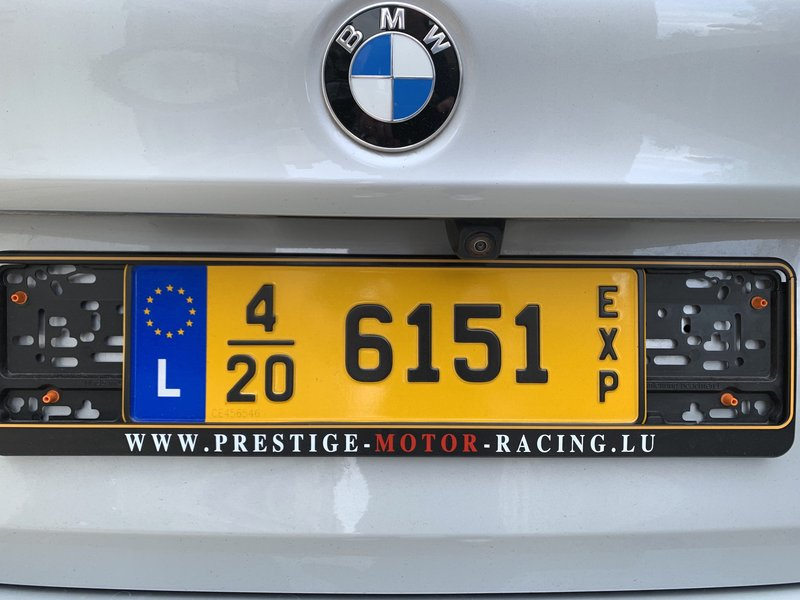 This photo, made at Boulogne-Billancourt (France), represents a Luxembourg rear export license plate; on the left side, number four = April and number 20 = 2020, that indicate expiration of validity.